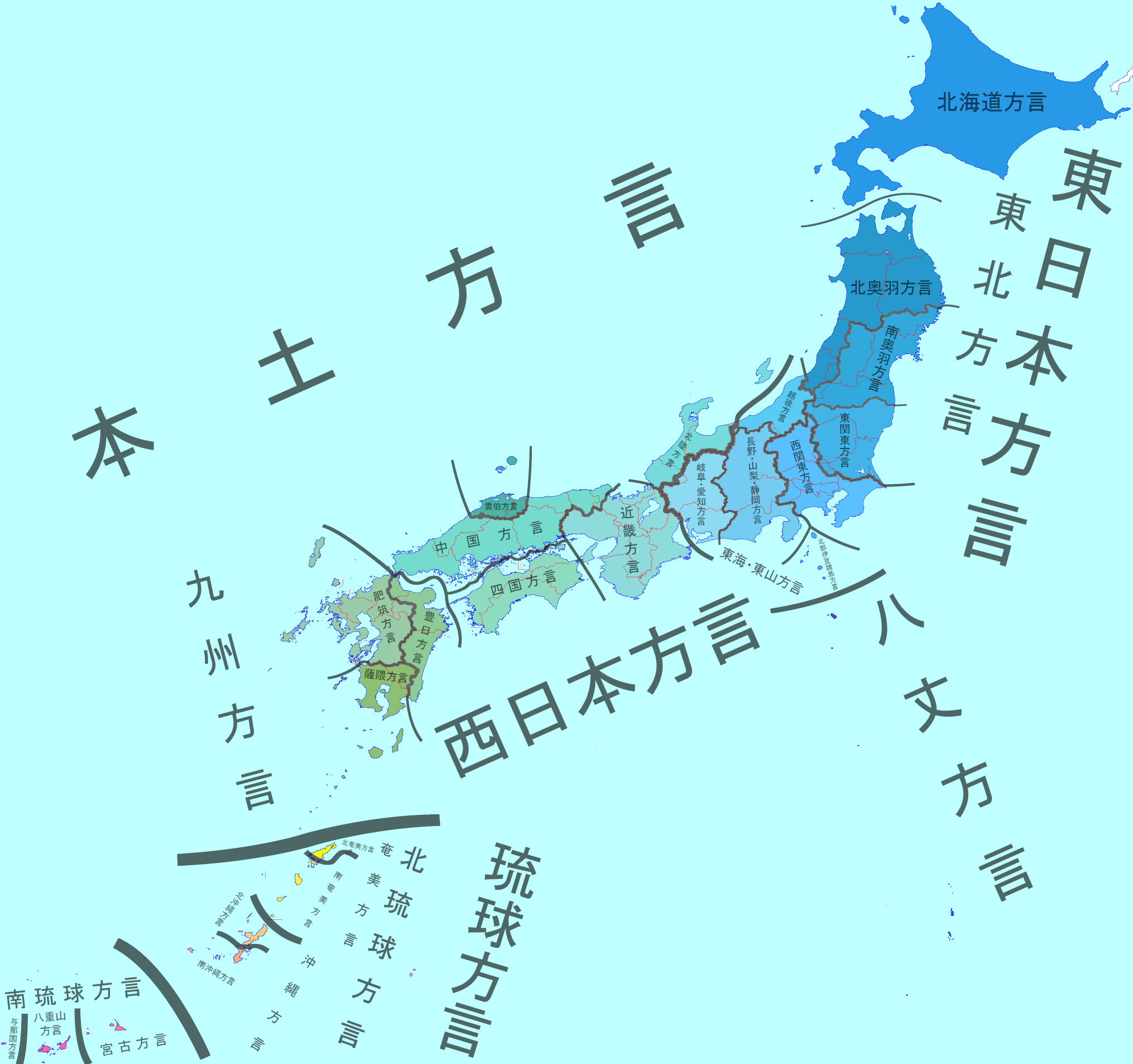 Map of Japanese dialects divisions (with Japanese description)